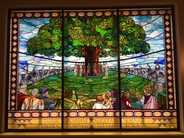 Inita Ēmane renovation (2008) of Ēlert Treilon stained glass "Sajāja bramaņi augstajā kalnā" (1938) depicts motif of the ancient Latvian folk song: "Sajāja bramaņi Augstajā kalnā, Sakāra zobenus Svētajā kokā." where spiritual leaders Bramaņi hold rithual meeting near the sacred oak tree. The folk song is included in the artwork and shown on the bottom.